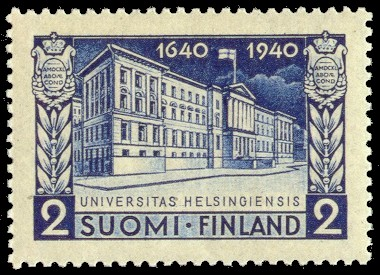 Postage stamp depicting the old main building of the University of Helsinki